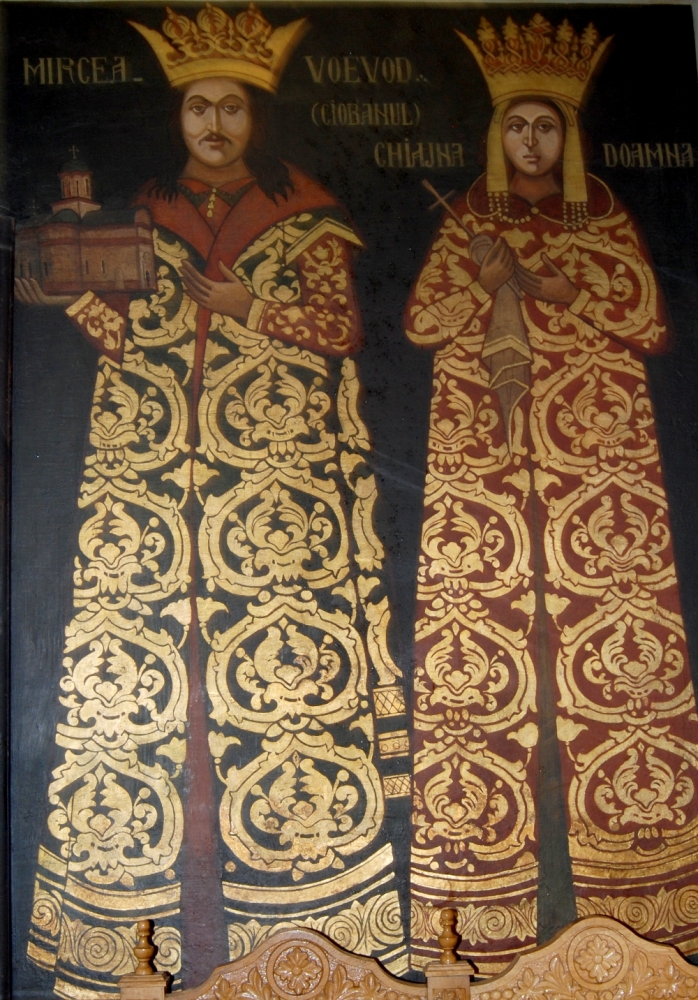 Mircea Ciobanul and his wife Chiajna